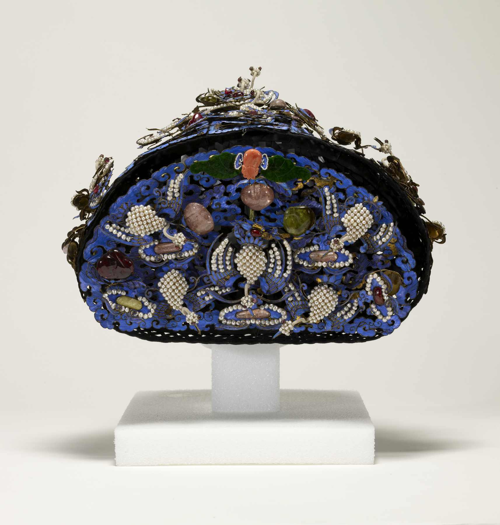 This headdress was likely once worn by the Empress Dowager Cixi (1835-1908), the effective ruler of China during the later years of the Qing Dynasty. It is an exquisite example of Chinese decoration and the symbolism used to express one's rank. The small phoenixes, called Fenghuang, emerging from the surface represent the empress, while the countless pearls and gemstones mark this piece as something special for the adornment of the highest-ranking woman in Chinese society.